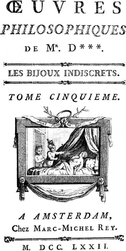 Book cover of The Indiscreet Jewels by Denis Diderot (1713-1784)